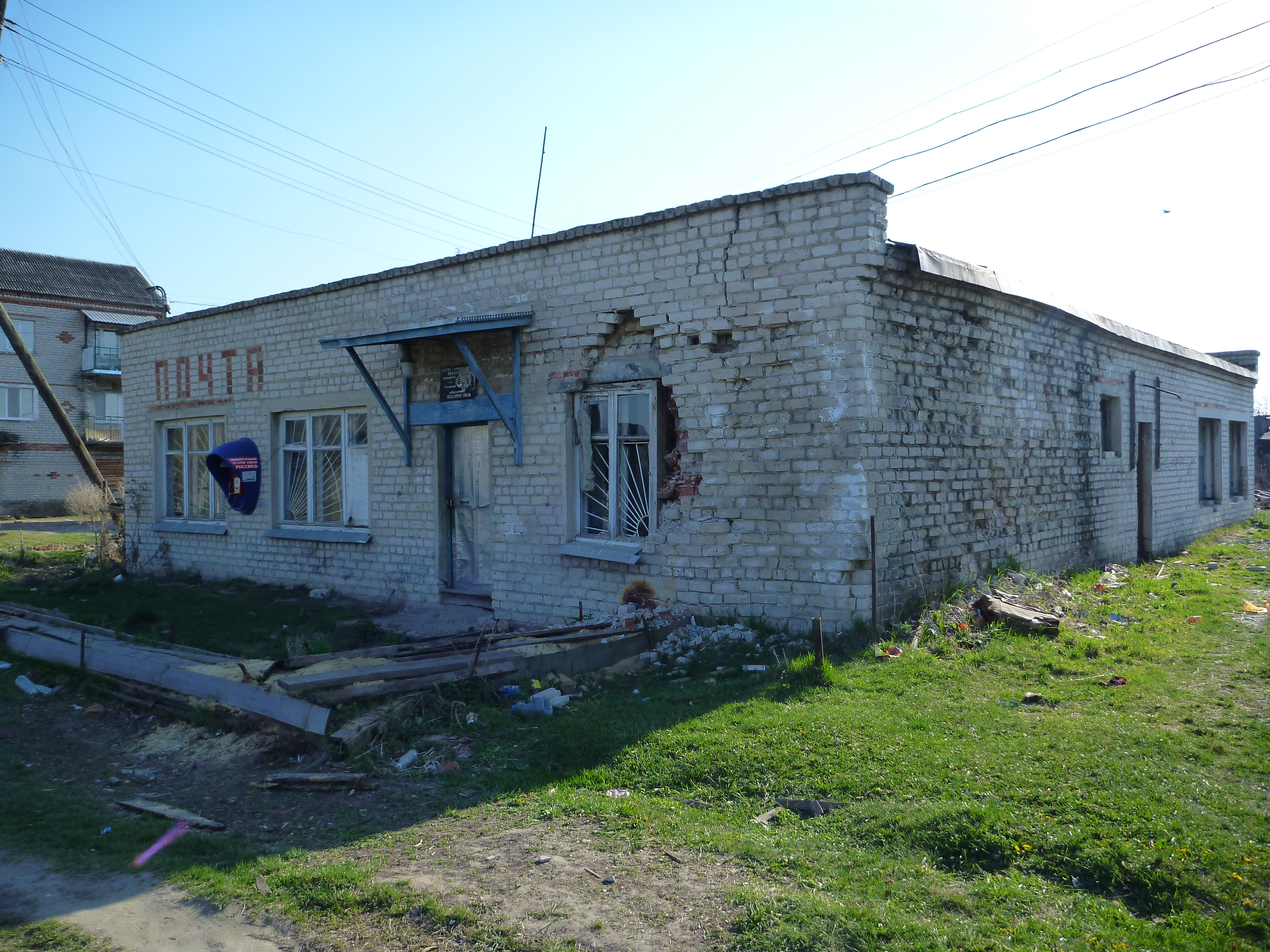 Post office 623654 in Zavodouspenskoe